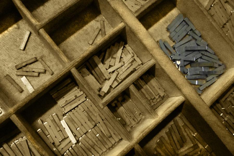 "type case" to hold movable type; the drawer is divided by dozens of boxes and each box contains a glyph (symbol) that is letter, number or punctuation.